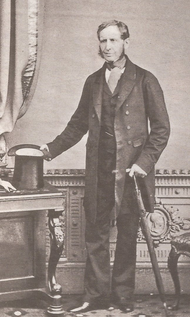 Photograph of Vice-Admiral Robert Fitzroy (1805-1865)